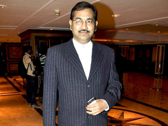 Sudesh Bhonsle at IBN7 Super Idols Awards